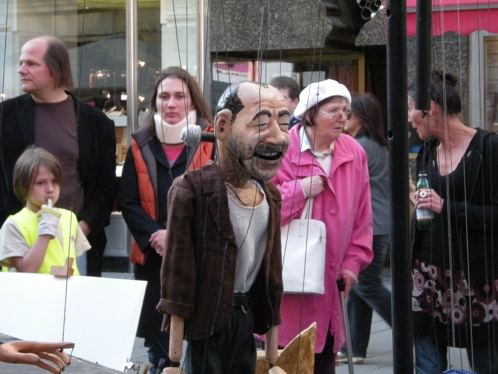 Karin Schäfer Figuren Theater company performing production 'Stringtime' at Wiener Stadtfest.